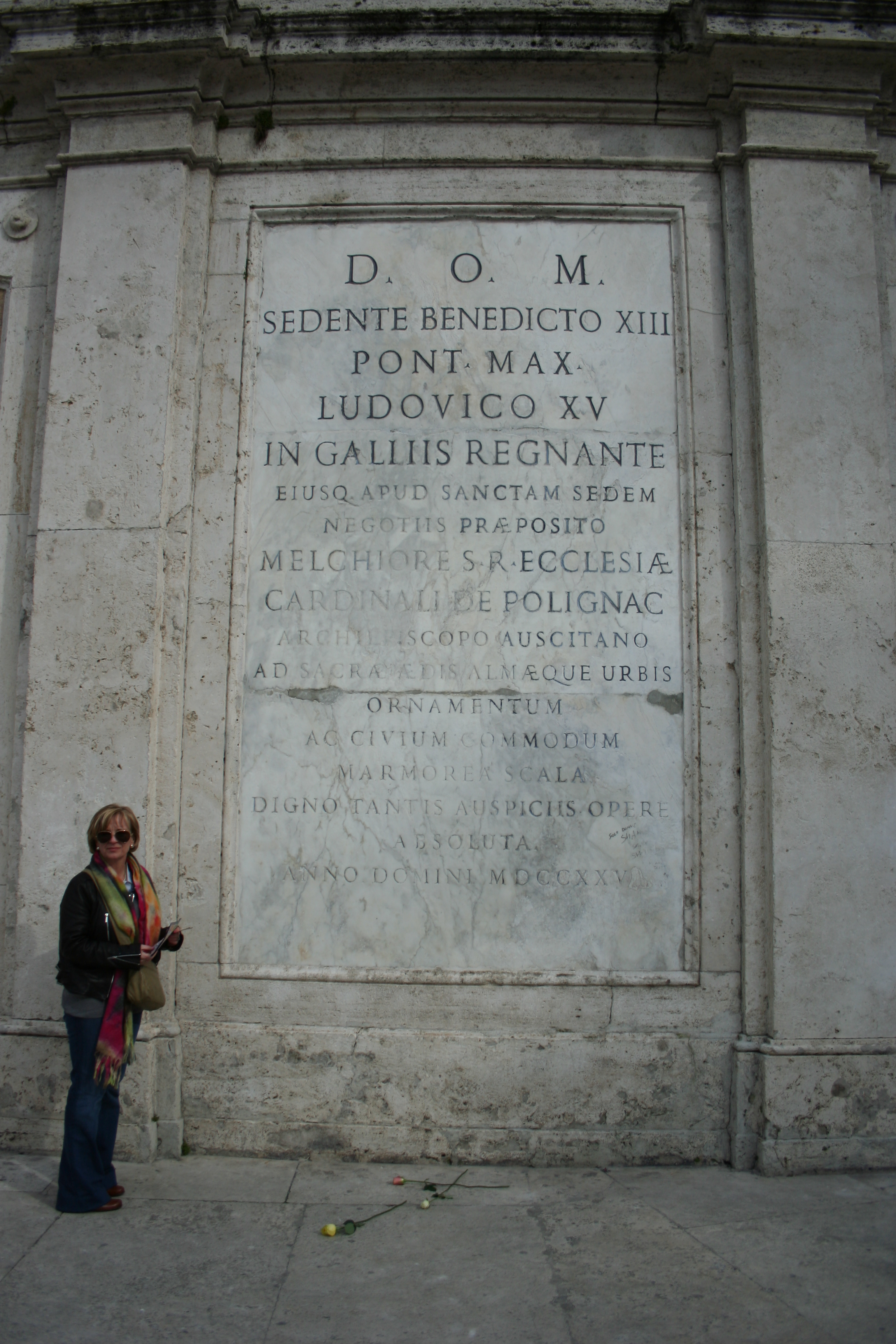 Pope Benedict XIII plaque, Spanish Steps, Rome, Italy